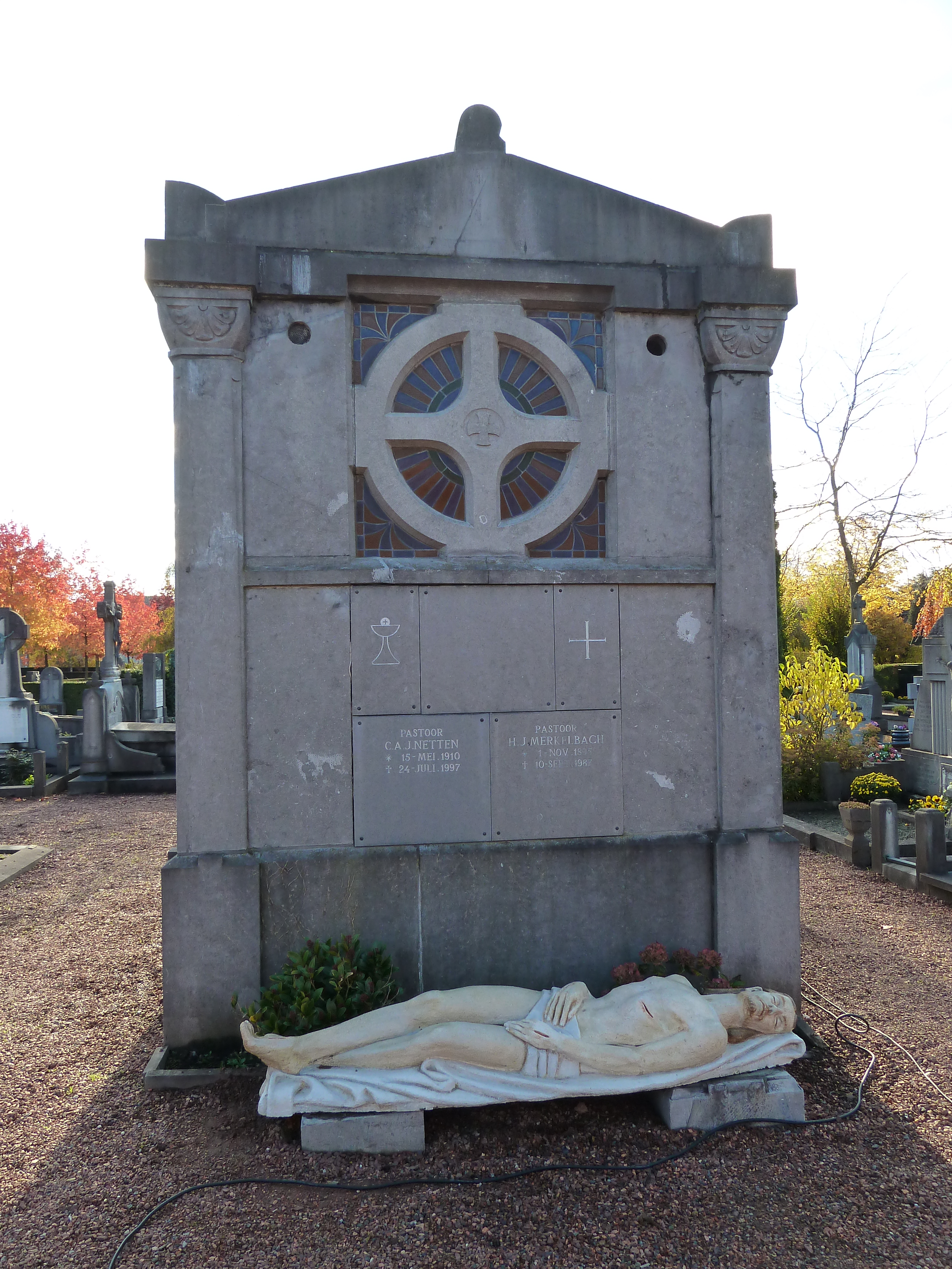 Begraafplaats van Aubel, Meerssen, Limburg, the Netherlands